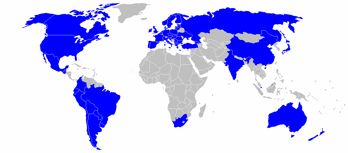 Fiat automobiles dealer network 2012